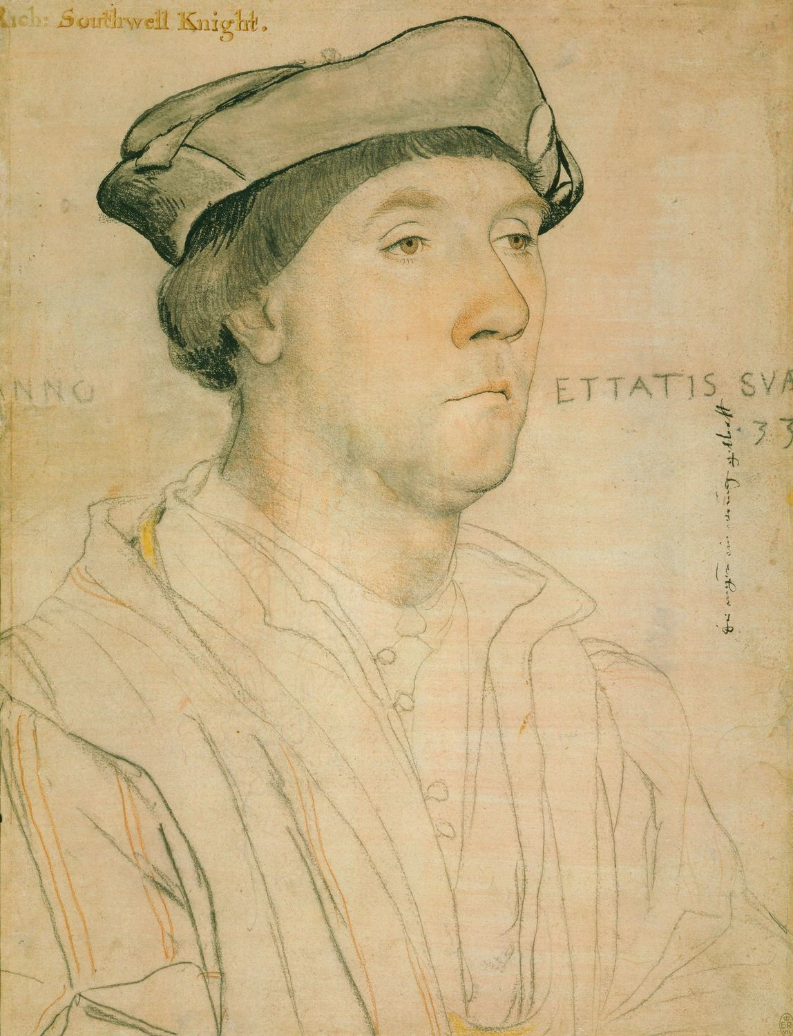 Portrait of Sir Richard Southwell. Black and coloured chalks, pen and brush and Indian ink, metalpoint, on pink-primed paper, 37 × 28.1 cm, Royal Collection, Windsor Castle. Holbein's note on the right says Die augen ein wenig gelblatt (the eyes a little yellowish). The eyes are coloured with a mix of black, red, and yellow chalks. Sir Richard Southwell (1504–1563/4) was a courtier and official. He was an agent of Thomas Cromwell in the Dissolution of the Monasteries and later played a part in the downfall of Henry Howard, Earl of Surrey, whom Holbein had also drawn. Working from this drawing, Holbein painted a portrait of Southwell, now in the Uffizi Gallery, Florence. A copy by another hand is in the Louvre. Reference K. T. Parker, The Drawings of Hans Holbein at Windsor Castle, Oxford: Phaidon, 1945, OCLC 822974.